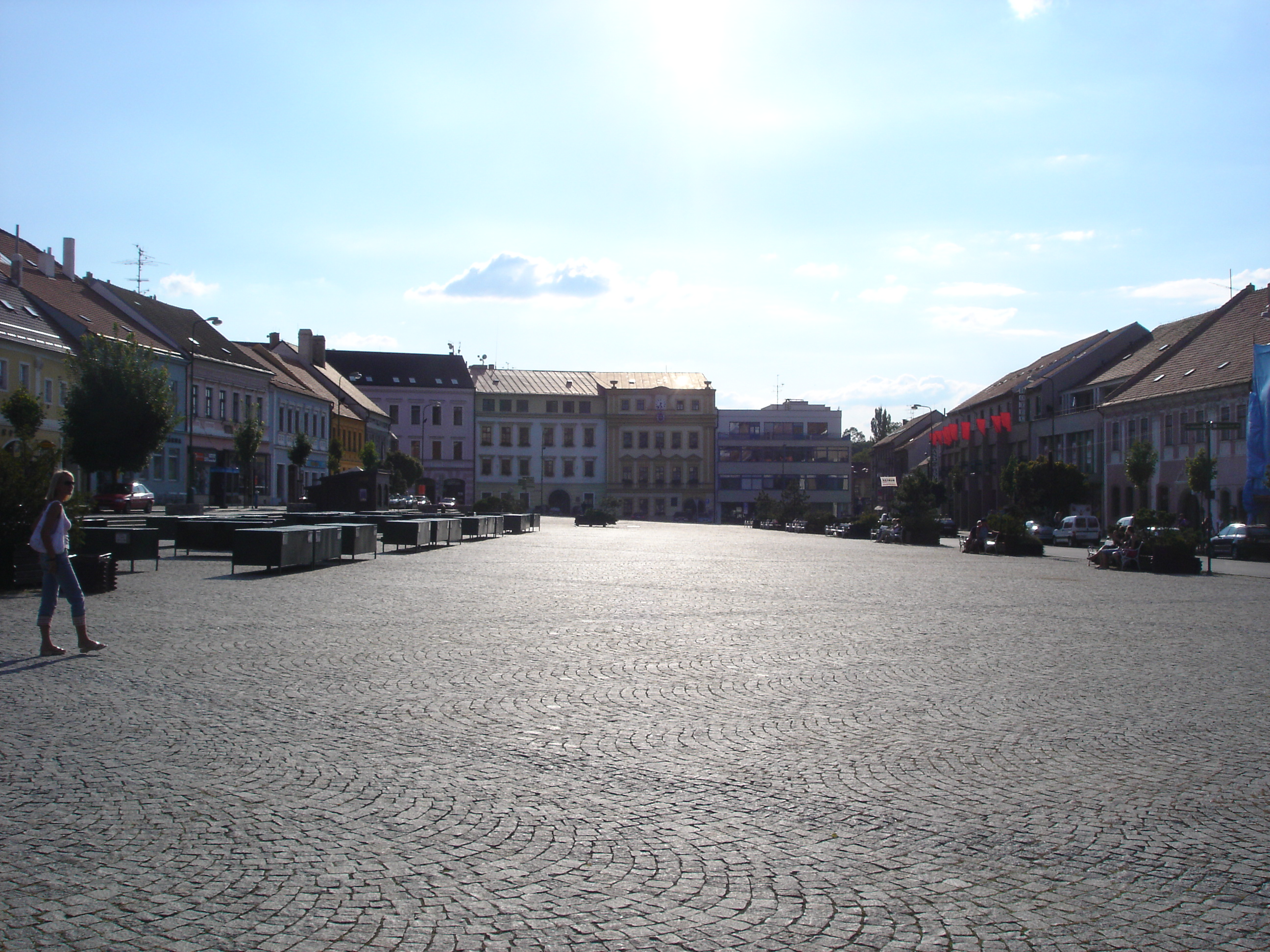 Karlovo náměsti in Třebíč town center.